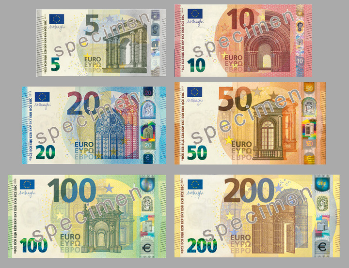 Euro Banknotes Europa series as of 28th May 2019